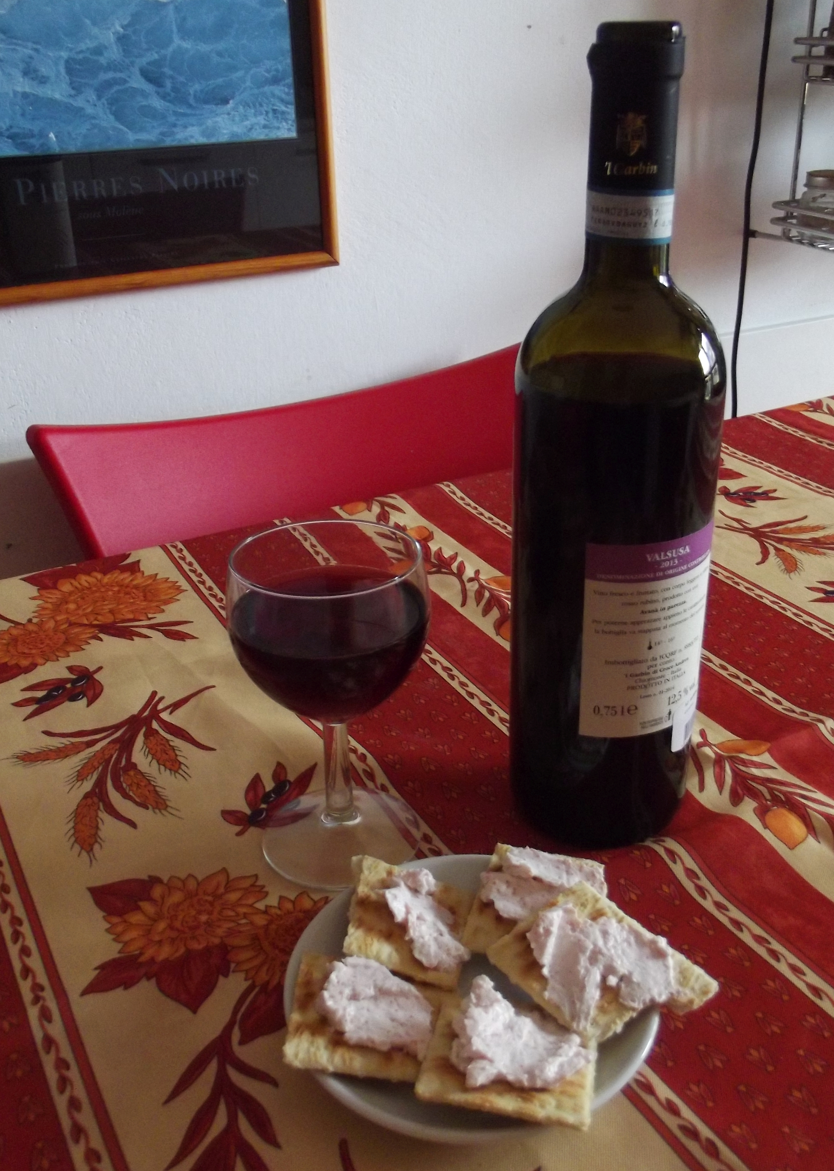 Valsusa 2013 (vine variety: Avanà)